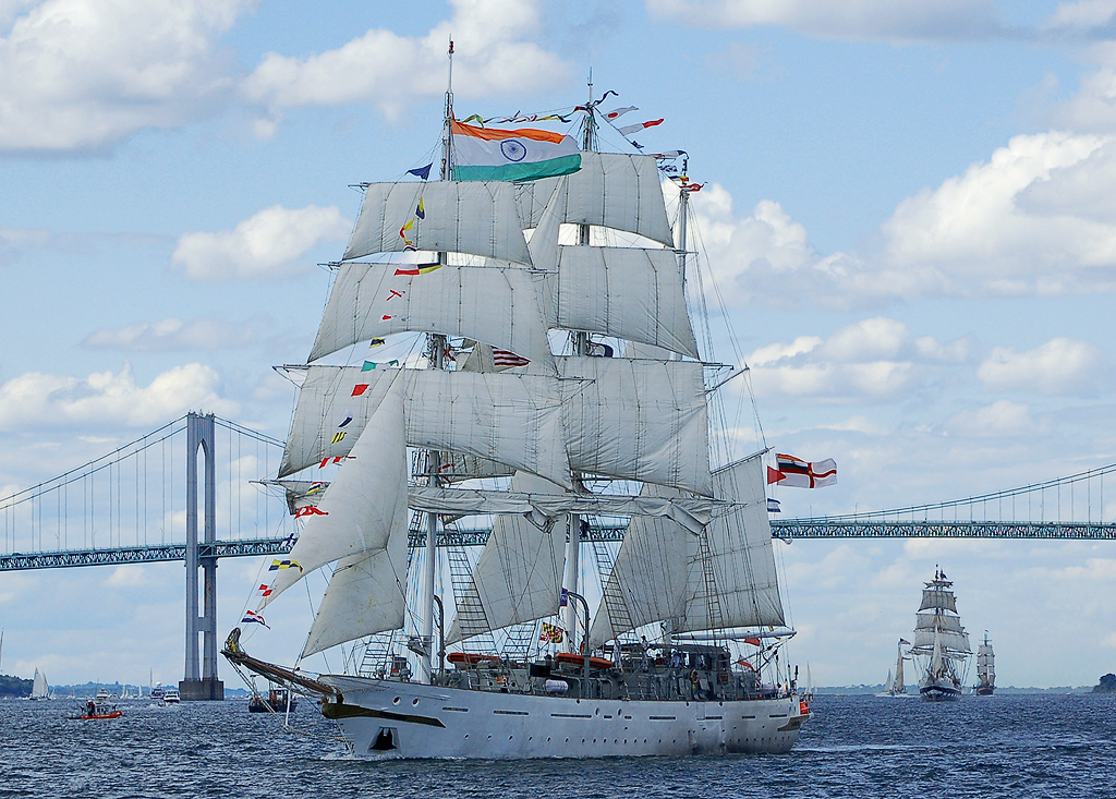 The Indian barque Tarangini passing under the Newport Bridge -- Narragansett Bay, RI, USA -- folowed by the Prince William and Picton Castle.